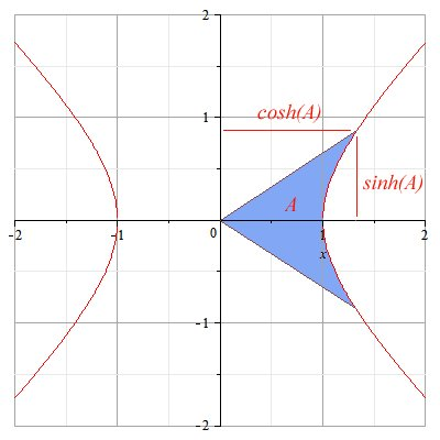 Relation between the area and the hyperbolic functions explaining the name "area hyperbolic function" meaning the inverse of the hyperbolic functions.